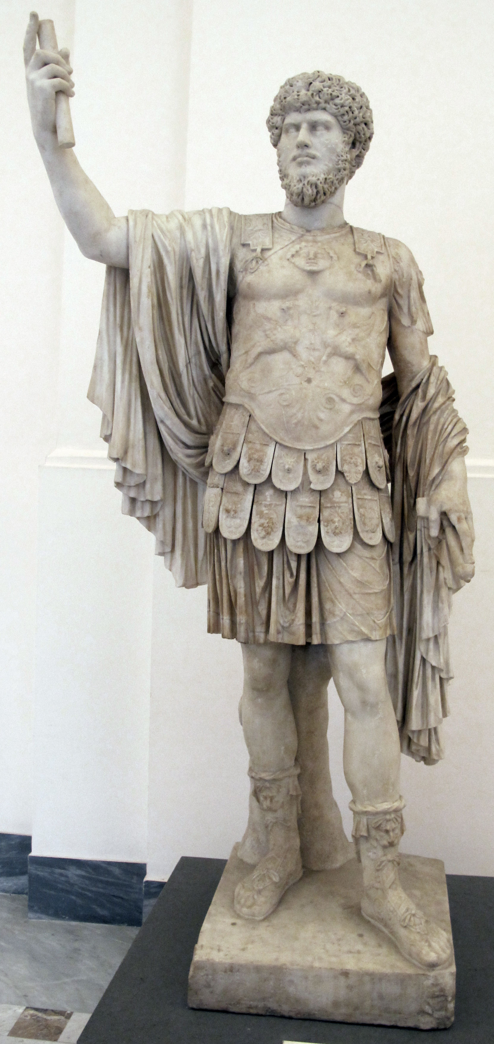 Ancient Roman statues from the Farnese Collection, now in Naples